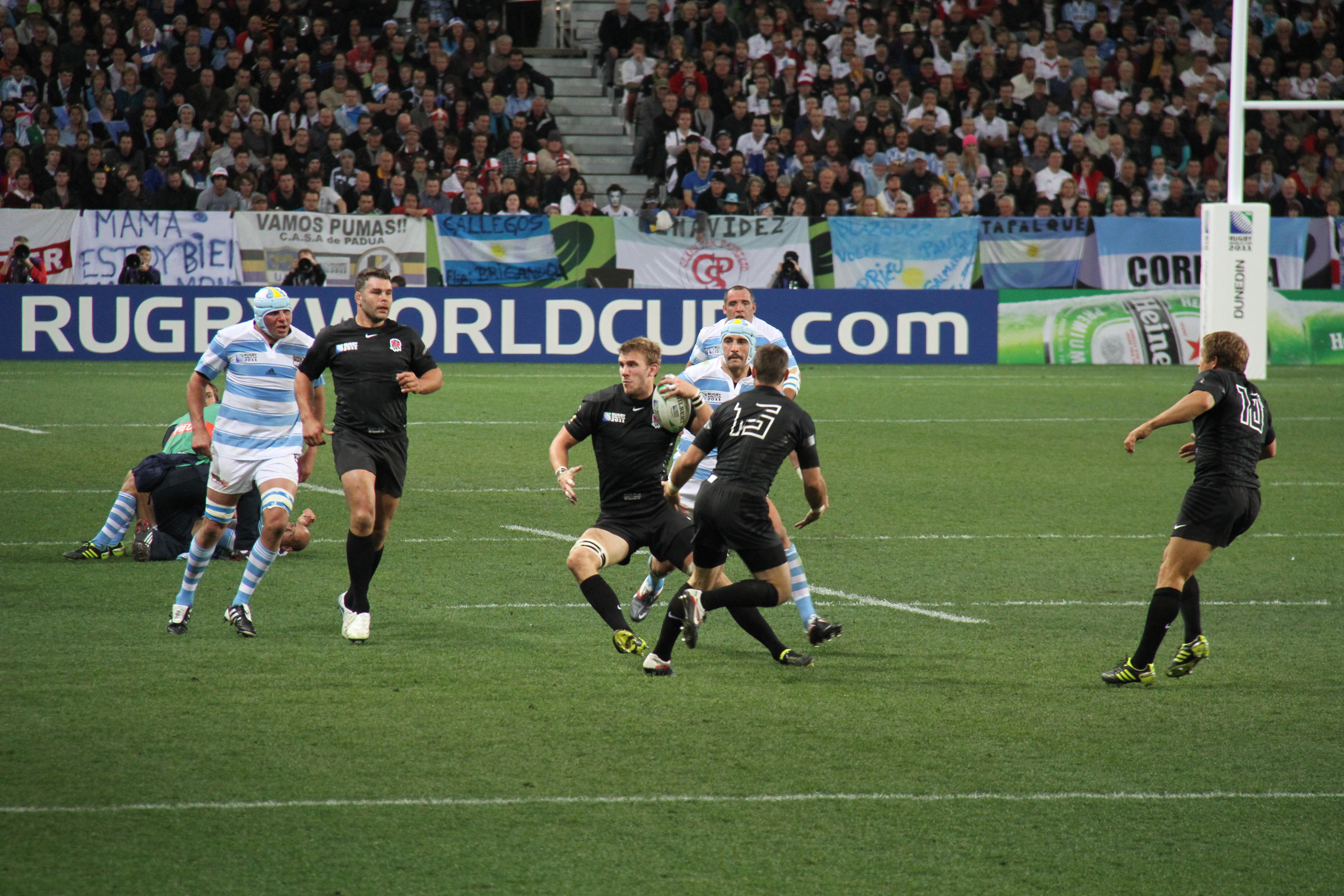 Match between Argentina and England during 2011 Rugby World Cup in New Zealand.